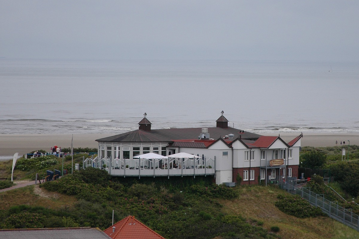 'Strandhalle' Langeoog, photo taken at the water tower